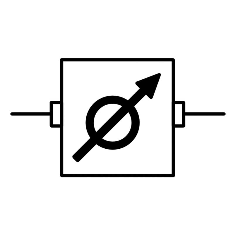 Optical symbol of a Variable Optical Attenuator